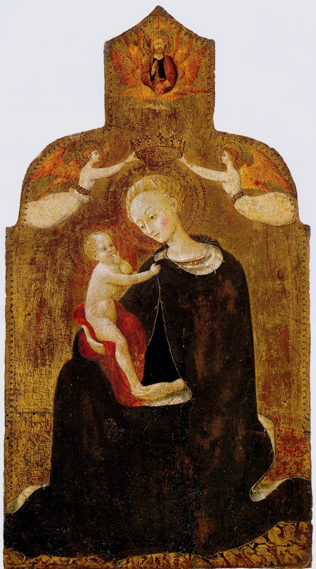 Madonna and Child with Engels